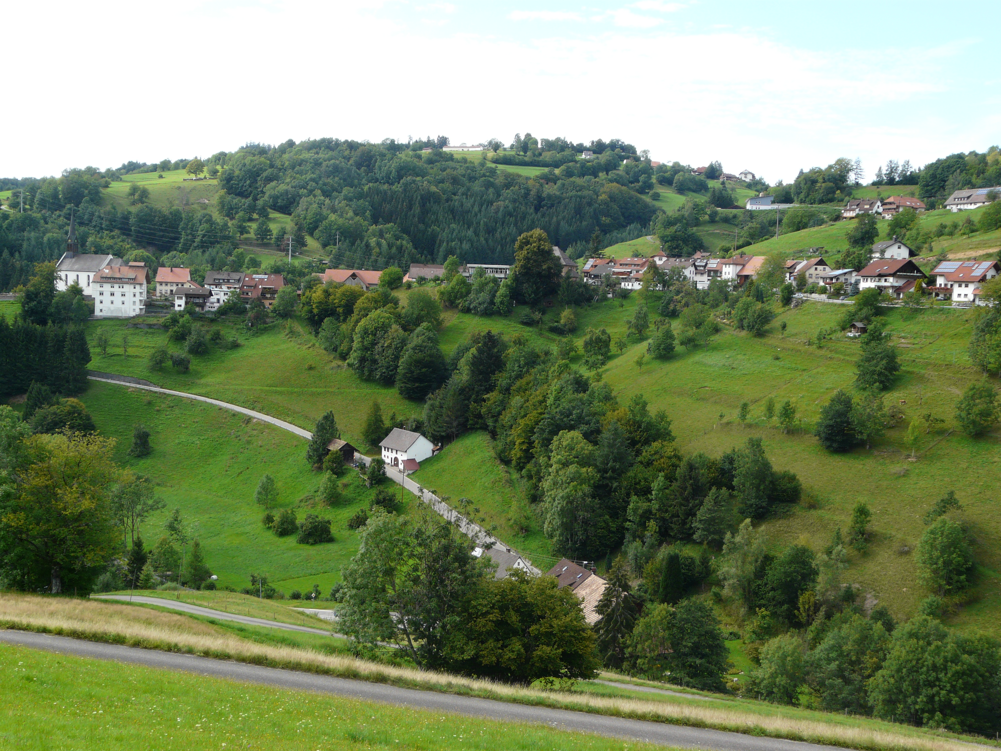 Häg, part of Häg-Ehrsberg, viewed from Sonnenmatt